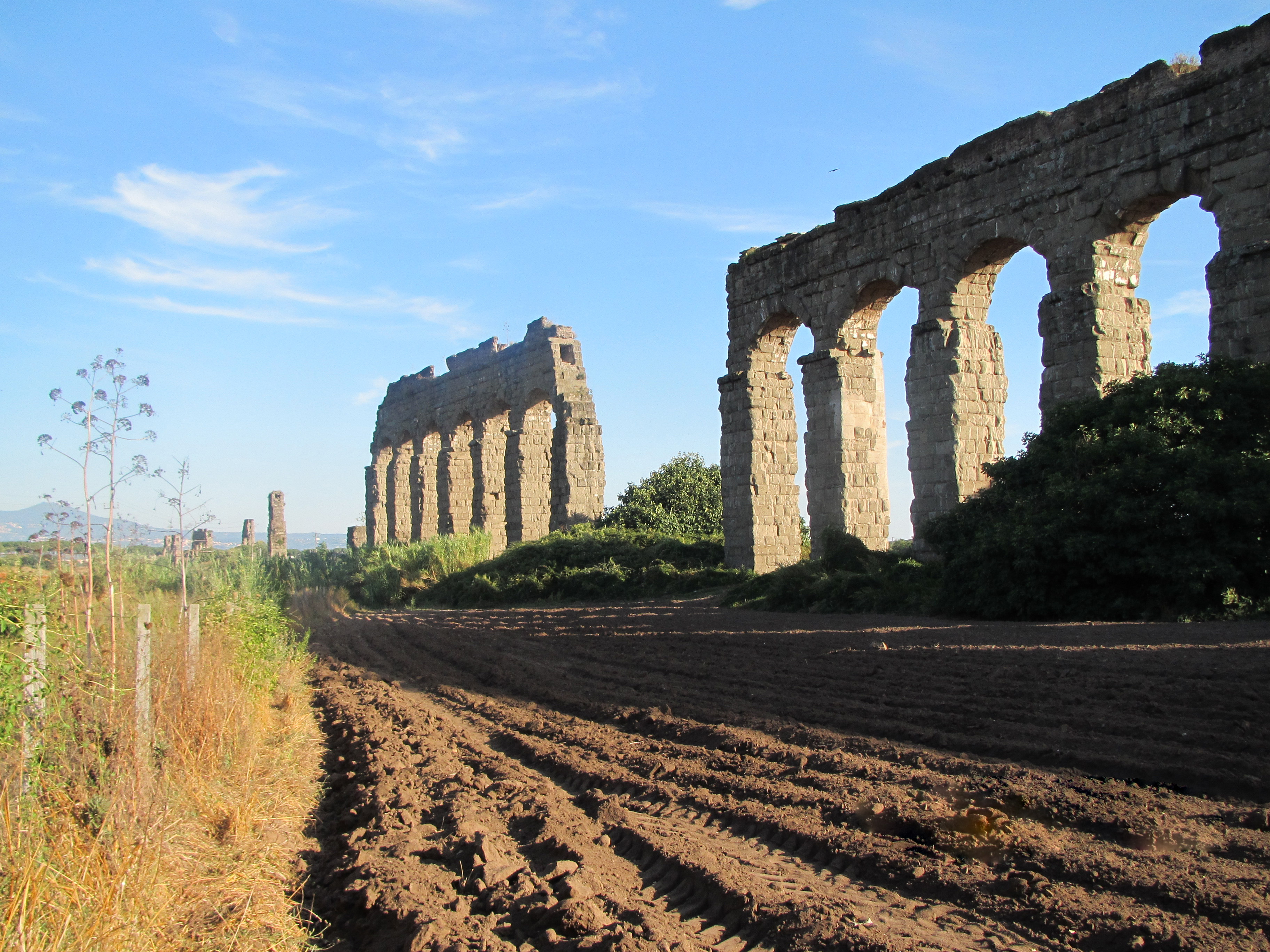 Parco degli Acquedotti